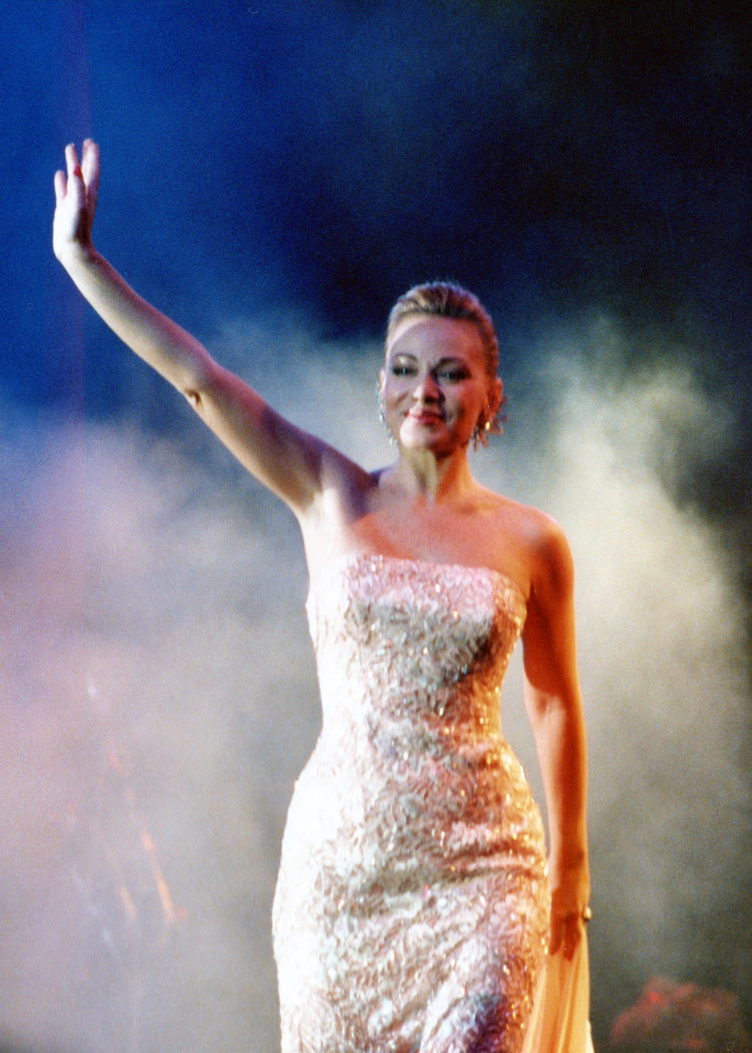 Spanish singer Paloma San Basilio, Trump Taj Mahal Resort, Atlantic City, New Jersey, March 27, 1992 � 1992 Jos� Oquendo